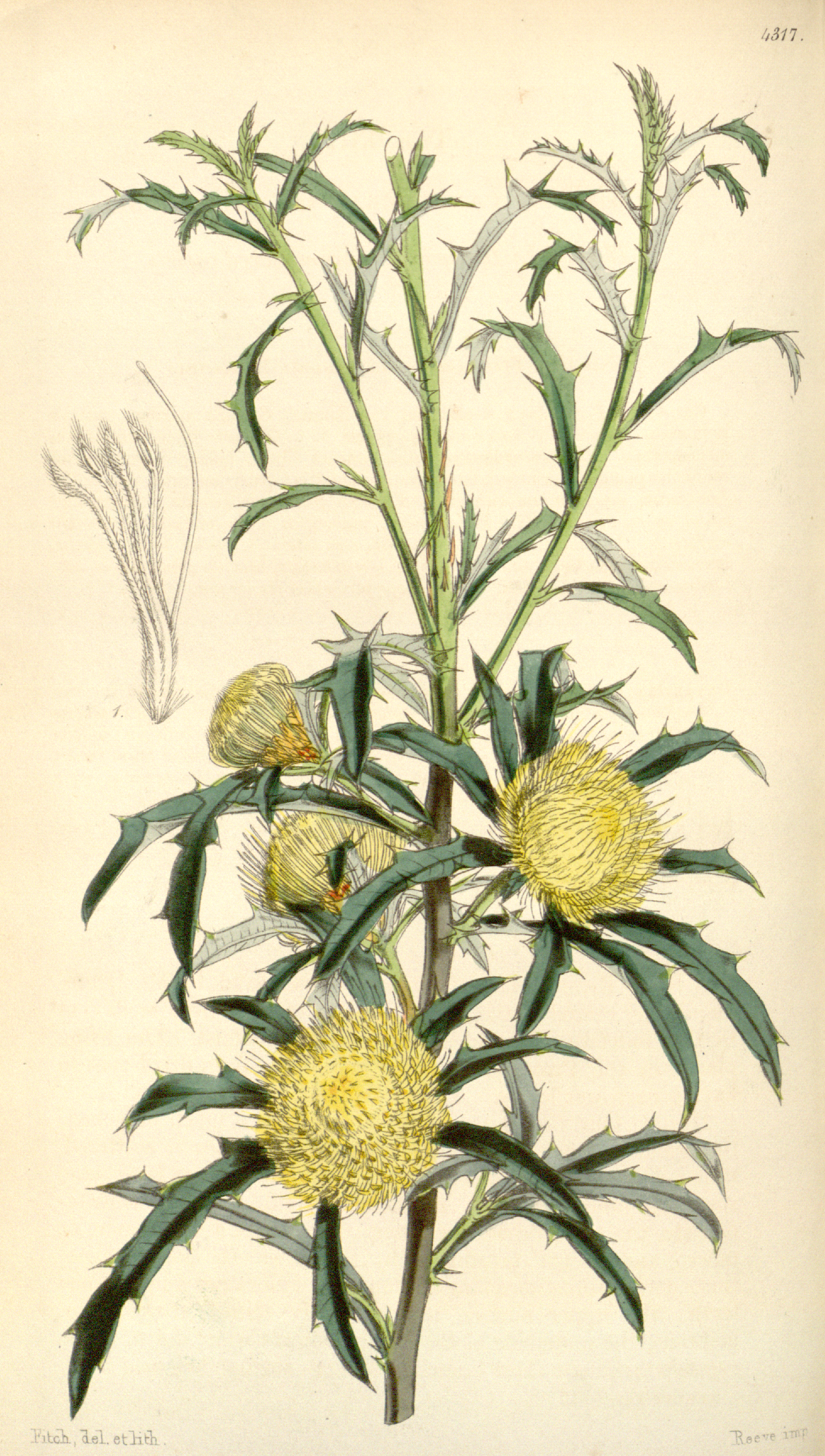 This is a plate from Curtis's Botanical Magazine, Volume 73. The plant depicts is "Dryandra carduacea var. angustifolia, now known as Banksia squarrosa subsp. squarrosa (Pingle).